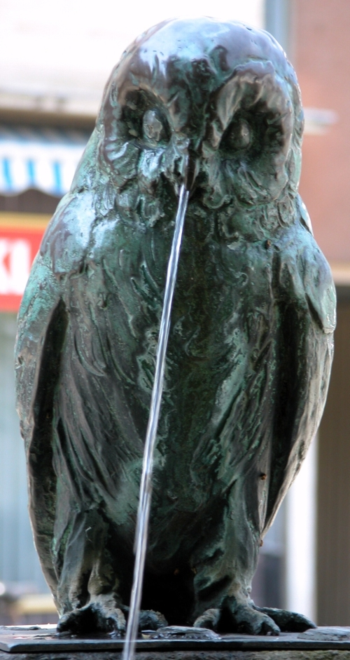 Brunswick, Germany: Owl on the Till Eulenspiegel-Fountain.